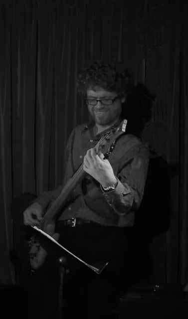 itaiguara_zinc nyc 2